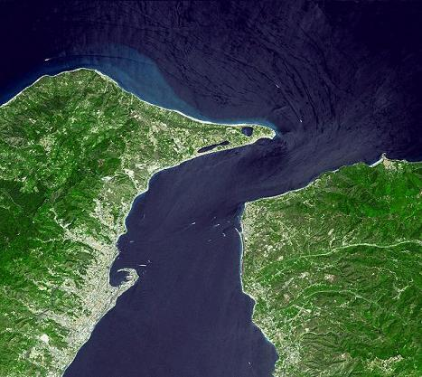 Strait of Messina from space.